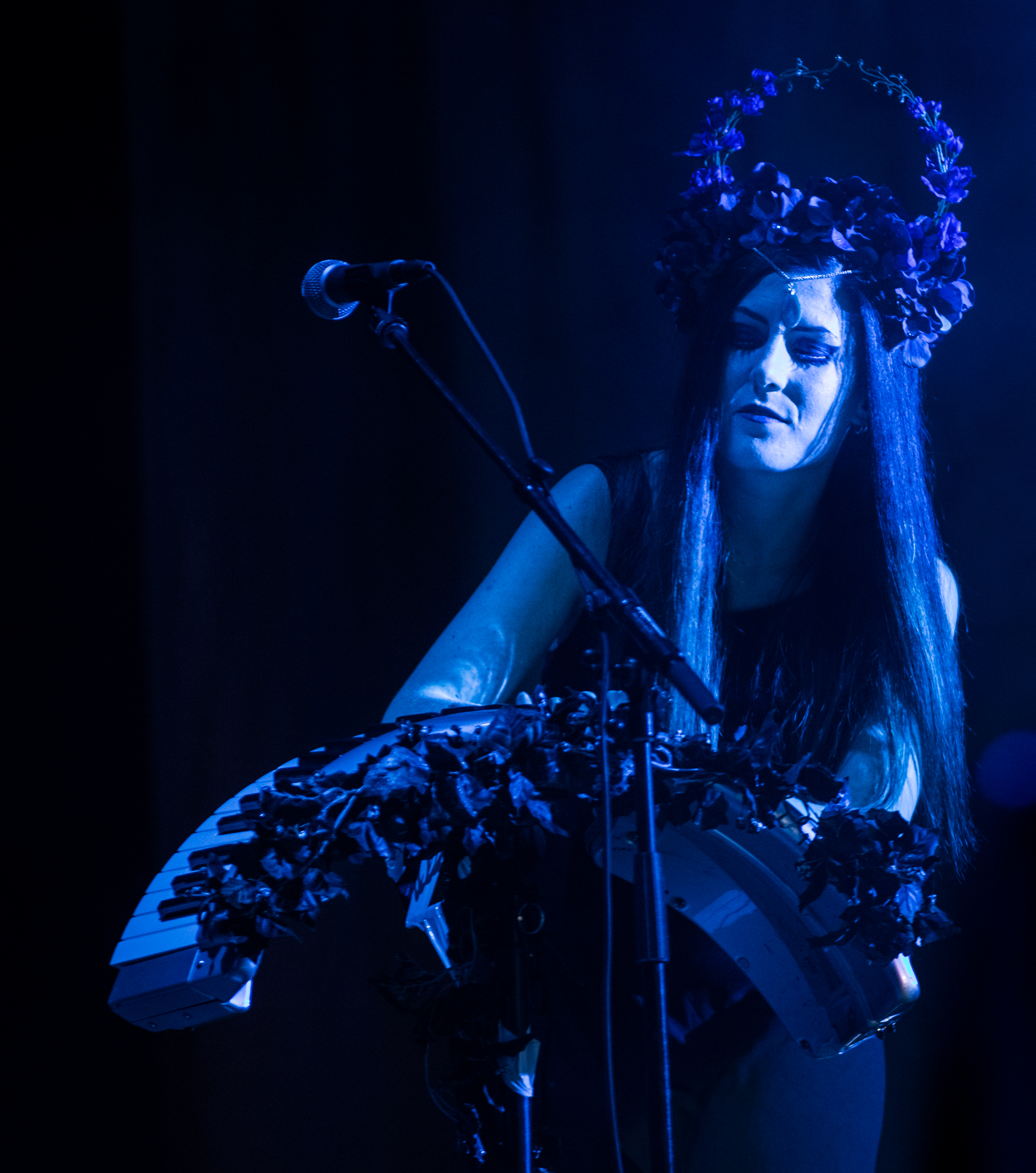 Cradle of Filth - Wacken Open Air 2015